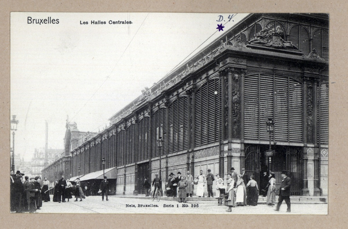 De Centrale Hallen/Halles centrales built in 1872-1874 (photo dating from end 19th/beginning of 20th C)